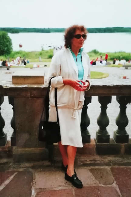 This is a picture that was taken of Swedish painter Irène K:son Ullberg.